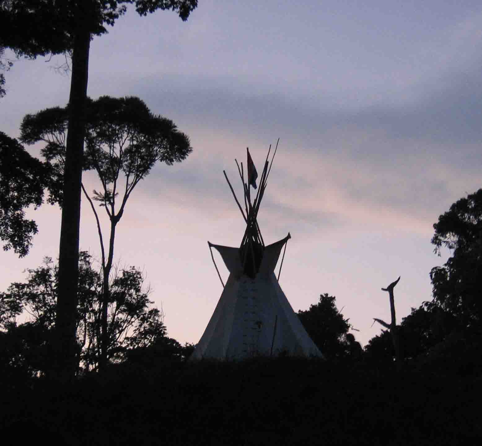 Photograph by Dirk van der Made (User:DirkvdM - for more photos see user:DirkvdM/Photographs). A tipi at the Rainbow World Gathering, near San Vito, Costa Rica, 23 March 2004.